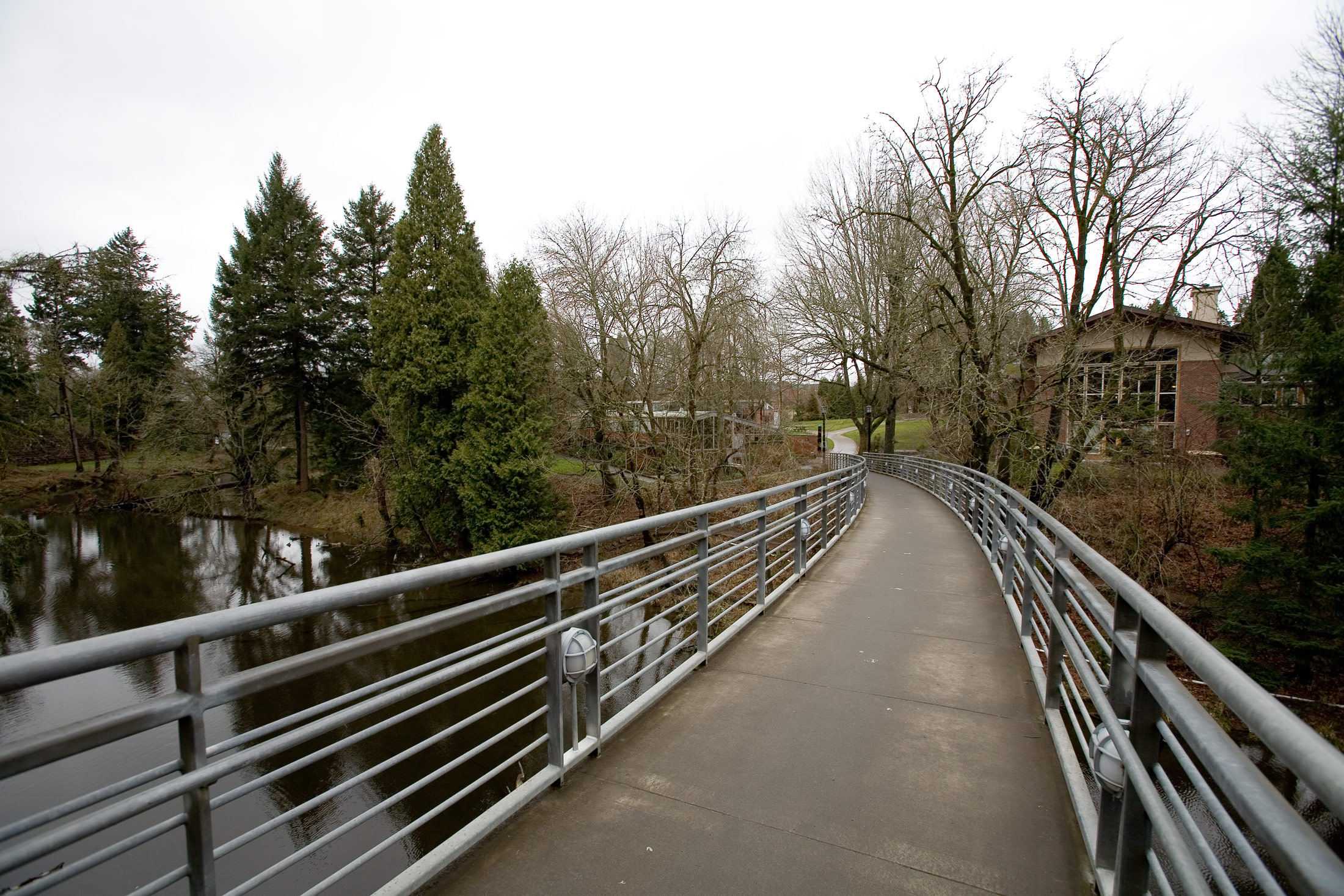 The Blue Bridge on the campus of Reed College.